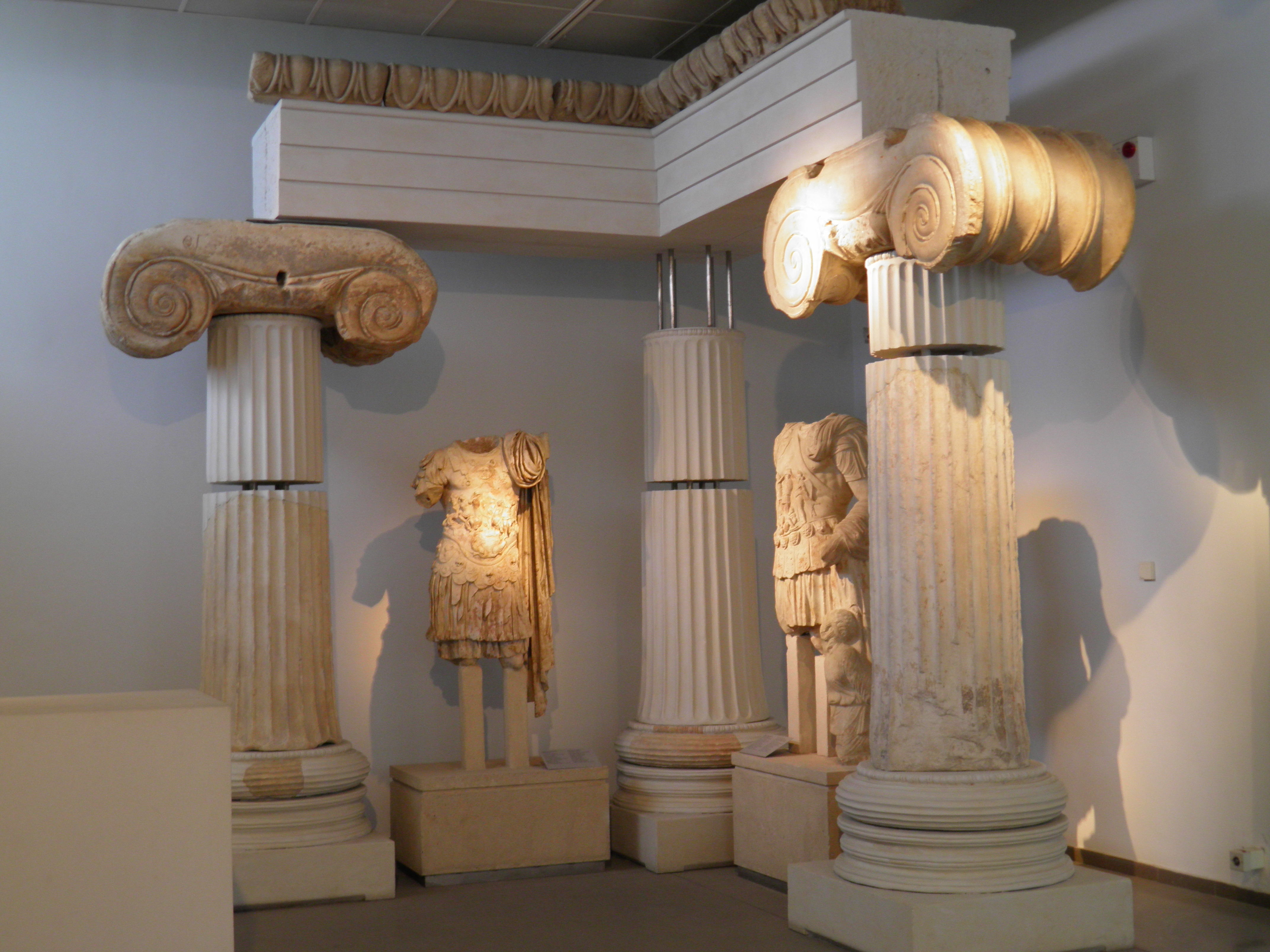 Archaeological Museum, Thessaloniki, Greece